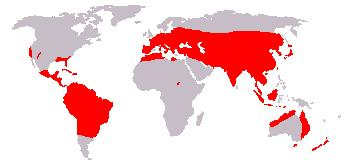 Distribution of the Boar